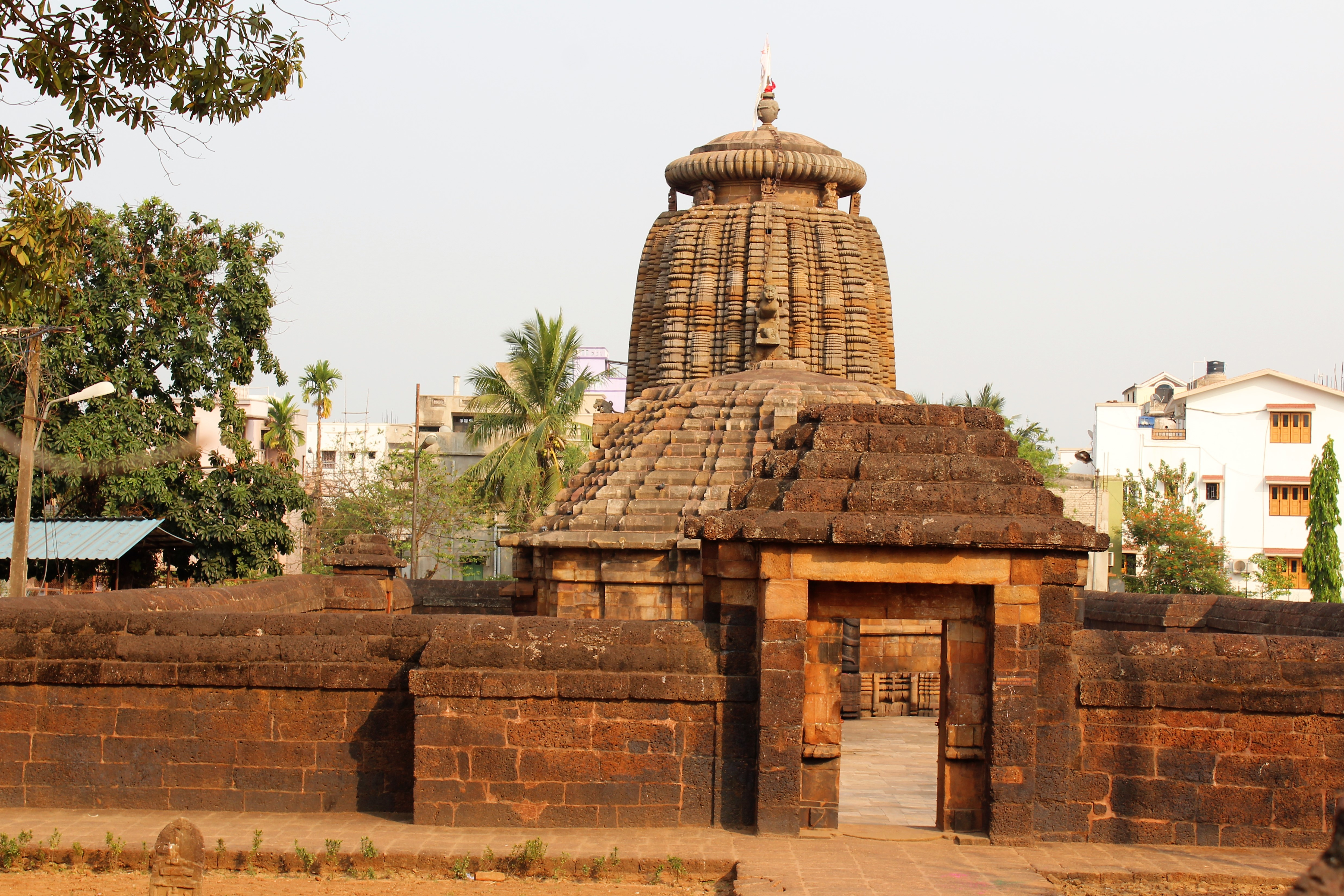 Megheswar temple, Bhubaneswar